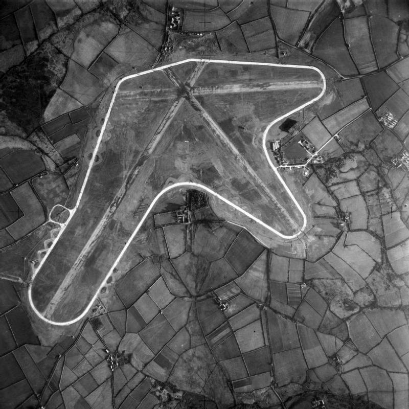 Vertical aerial view of RAF Brawdy, Pembrokeshire (UK). Although it was used as a satellite airfield by the nearby St David's at this time, Brawdy did not officially open until February 1944 when No. 517 Squadron RAF moved there to fly meteorological sorties over the Atlantic Ocean and the Western approaches.